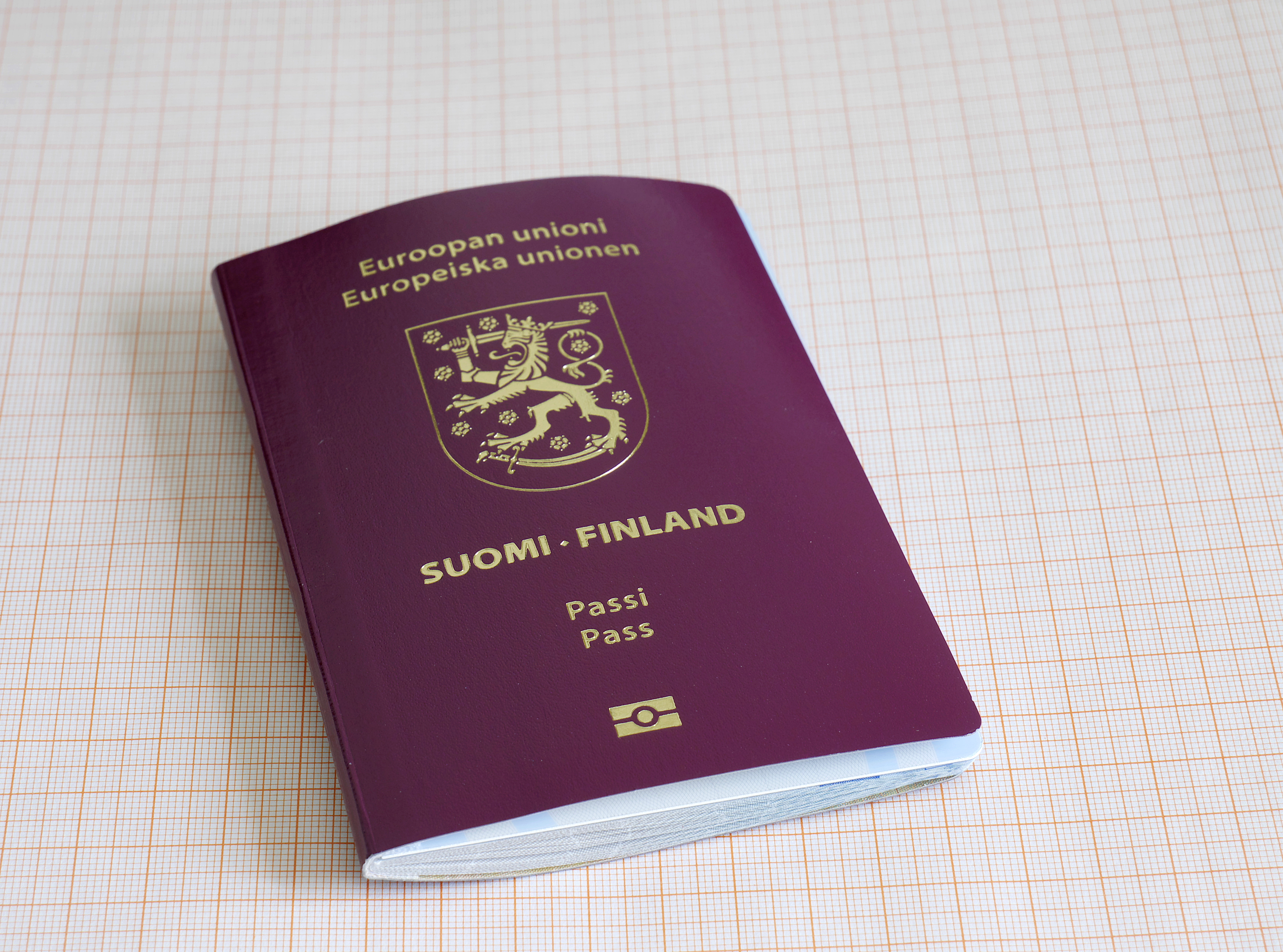 Finland passport 2018.